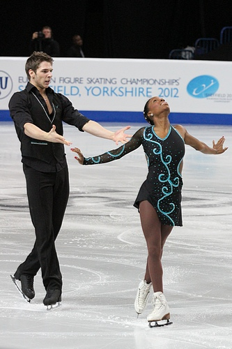 Vanessa James and Morgan Ciprès at the 2012 European Figure Skating Championships.